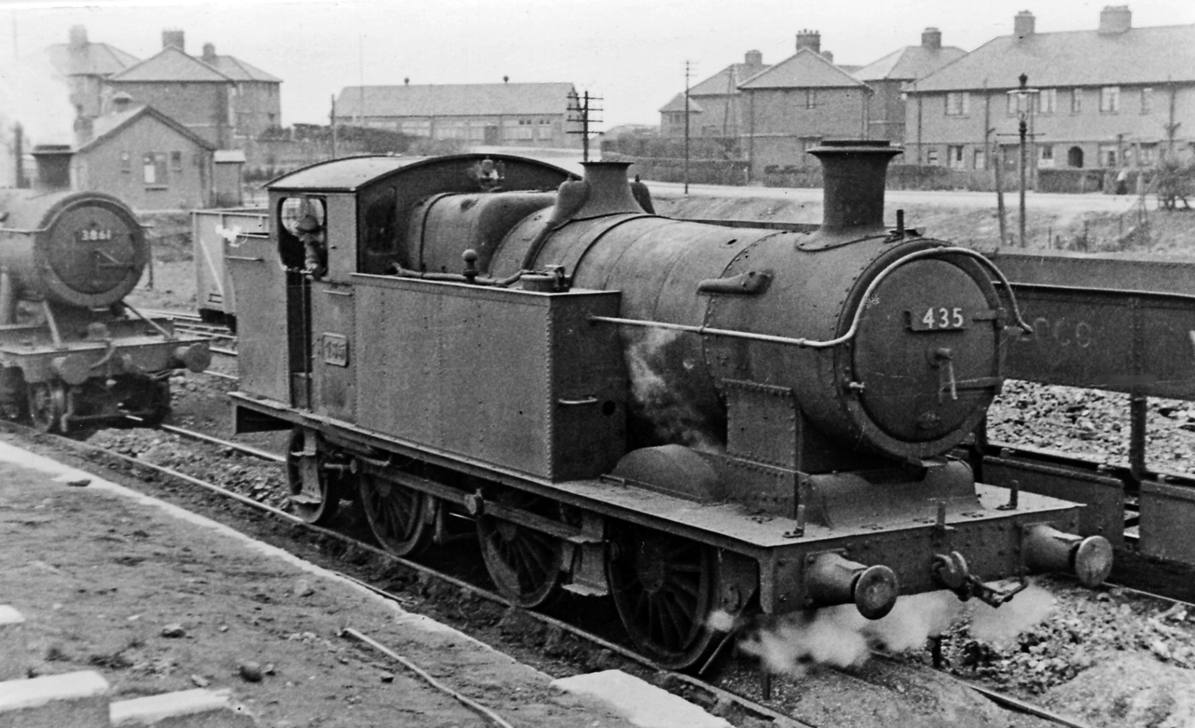 GW former Brecon & Merthyr 0-6-2T at Newport Ebbw Junction Locomotive Depot. No. 435 was built 2/21 as B&M No. 49, acquired by the GWR in 7/22 as No. 1668, renumbered 435 in 1947-50 and withdrawn in 2/54. Here in 1951 it is on an outside pit at the major Ebbw Junction Depot, which in 1950 (coded 86A) had an allocation of 143:- 12 4-6-0, 28 2-8-0 (25 GW, 3 ex-WD), 2 2-6-0 (1 GW, 1 LMS-type), 4 0-6-0, 11 2-8-2T, 29 2-8-0T, 7 2-6-2T, 7 0-6-2T, 43 0-6-0T; also 3 Diesel railcars. One of the 2-8-0s is behind.